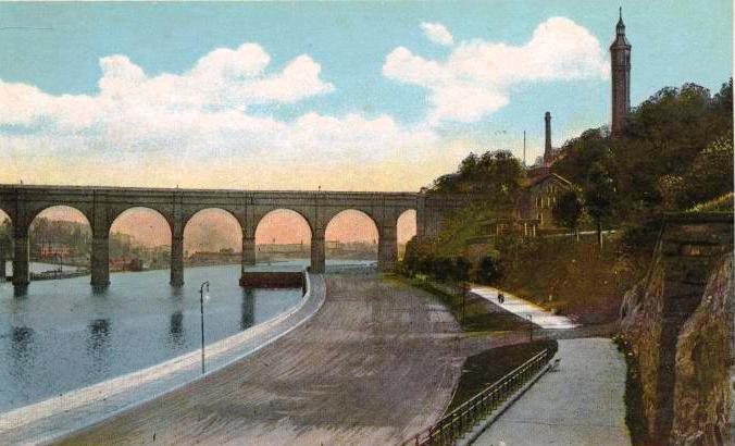 Photomechanical print of the Harlem River Speedway in the early 20th century. Highbridge park is at left.